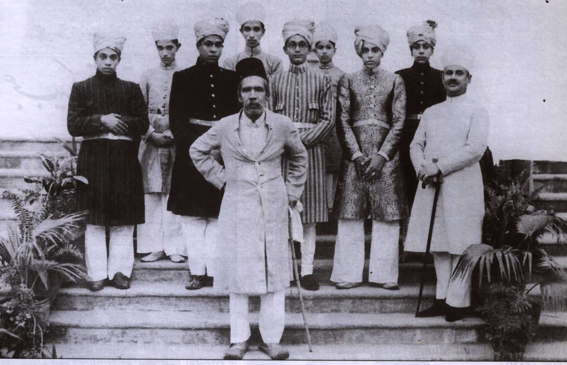 The last Nizam of the Indian Princely State of Hyderabad with some male members of the ruling family of the Qu'aiti-Sultanate (Hadramaut, southern Arabia)